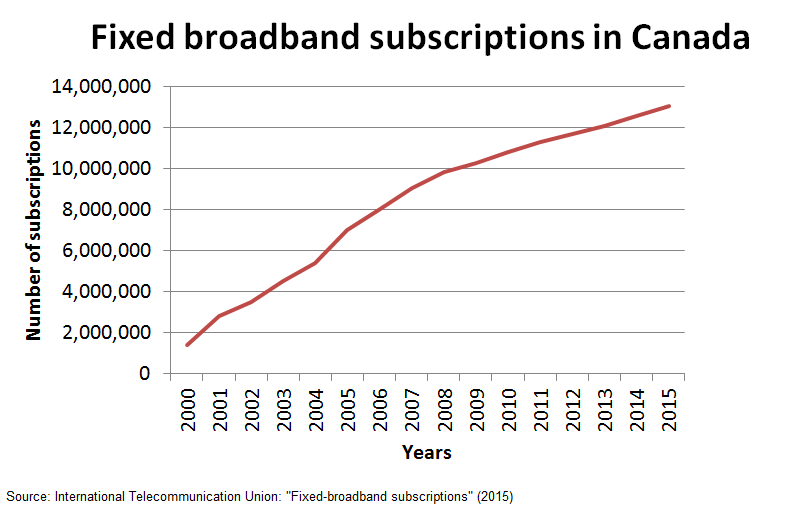 A graph depicting the growth in fixed broadband subscription in Canada from 2000 to 2015.